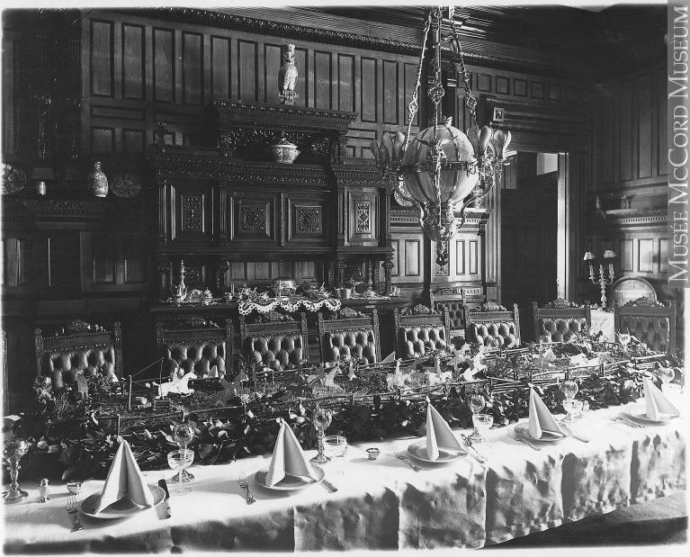 Alfred Baumgarten's dining room with a table decroation depicting the Montreal Hunt, 1904